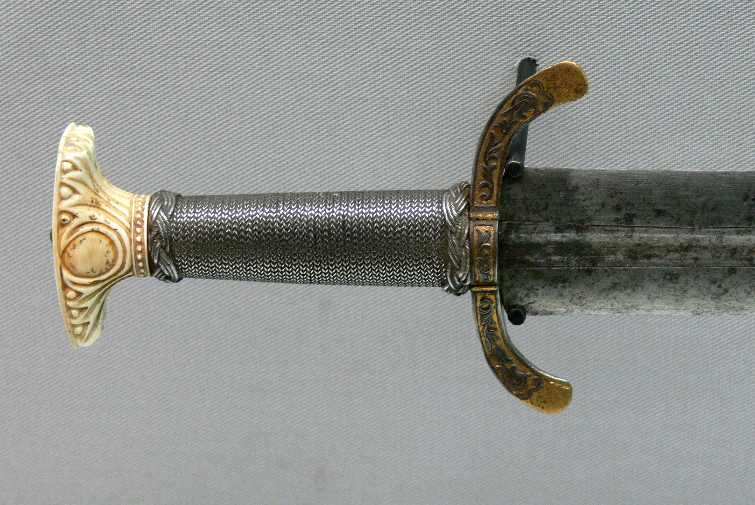 Oberhausmuseum ( Passau ). Short sword ( 1600 ) with ivory handle - detail.